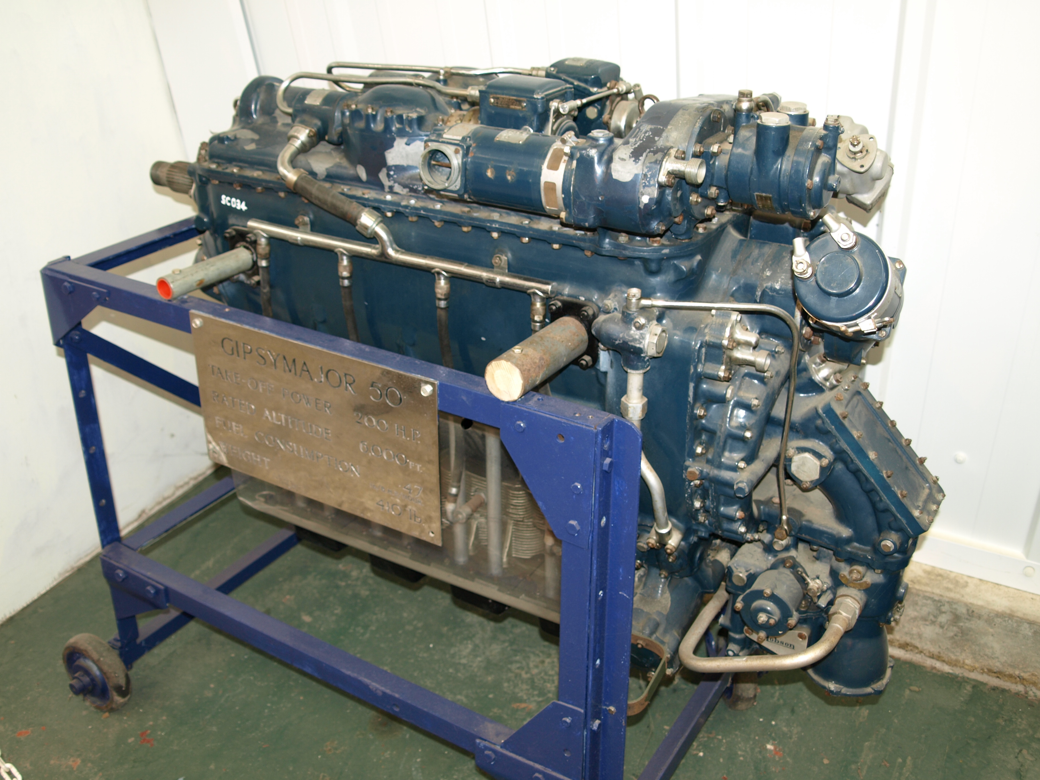 de Havilland Gipsy Major 50 on display at the Shuttleworth Colection